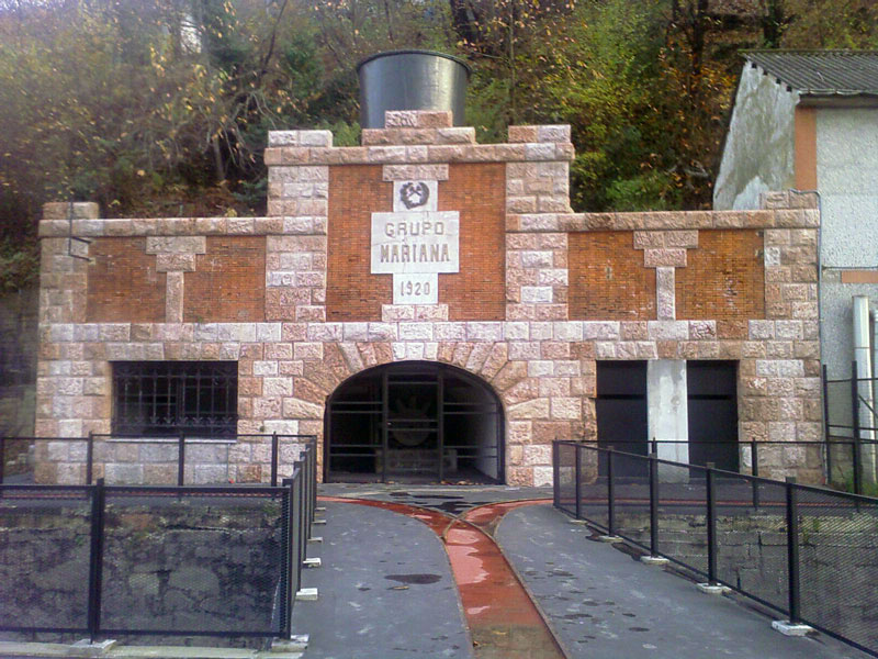 Adit of Mariana coal mine (Mieres, Asturias, Spain)